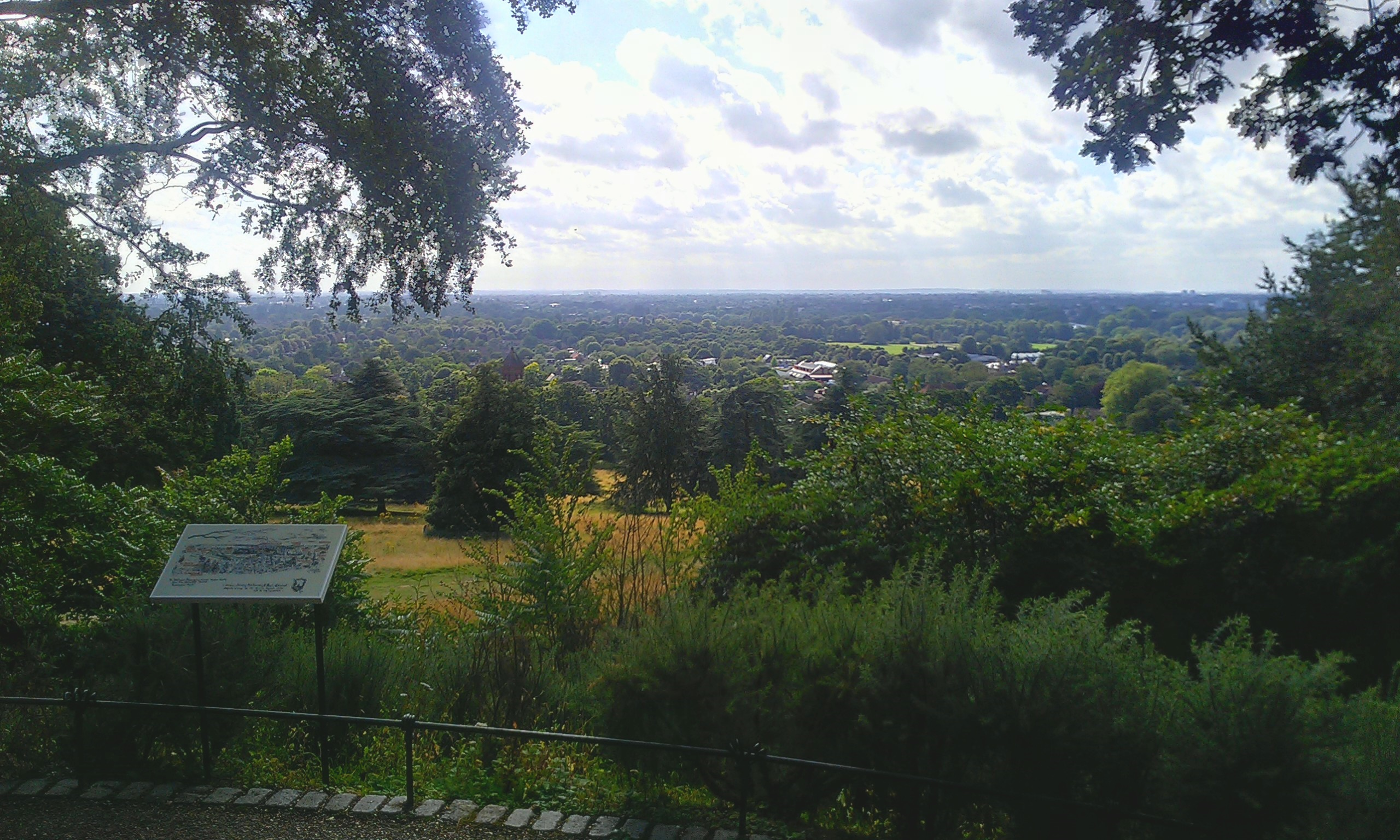 Landscape view from King Henry's Mound, a possibly prehistoric tumulus, in Richmond Park, West London.